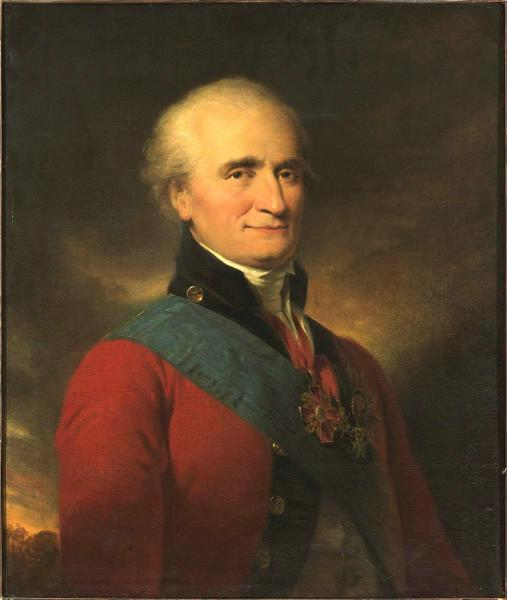 François-Emmanuel de Guignard, comte de Saint-Priest